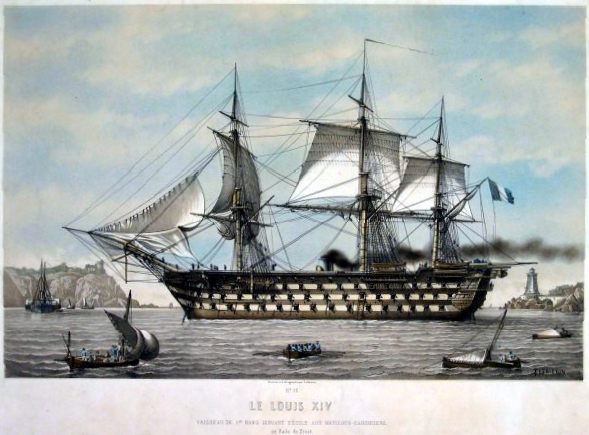 Louis-XIV